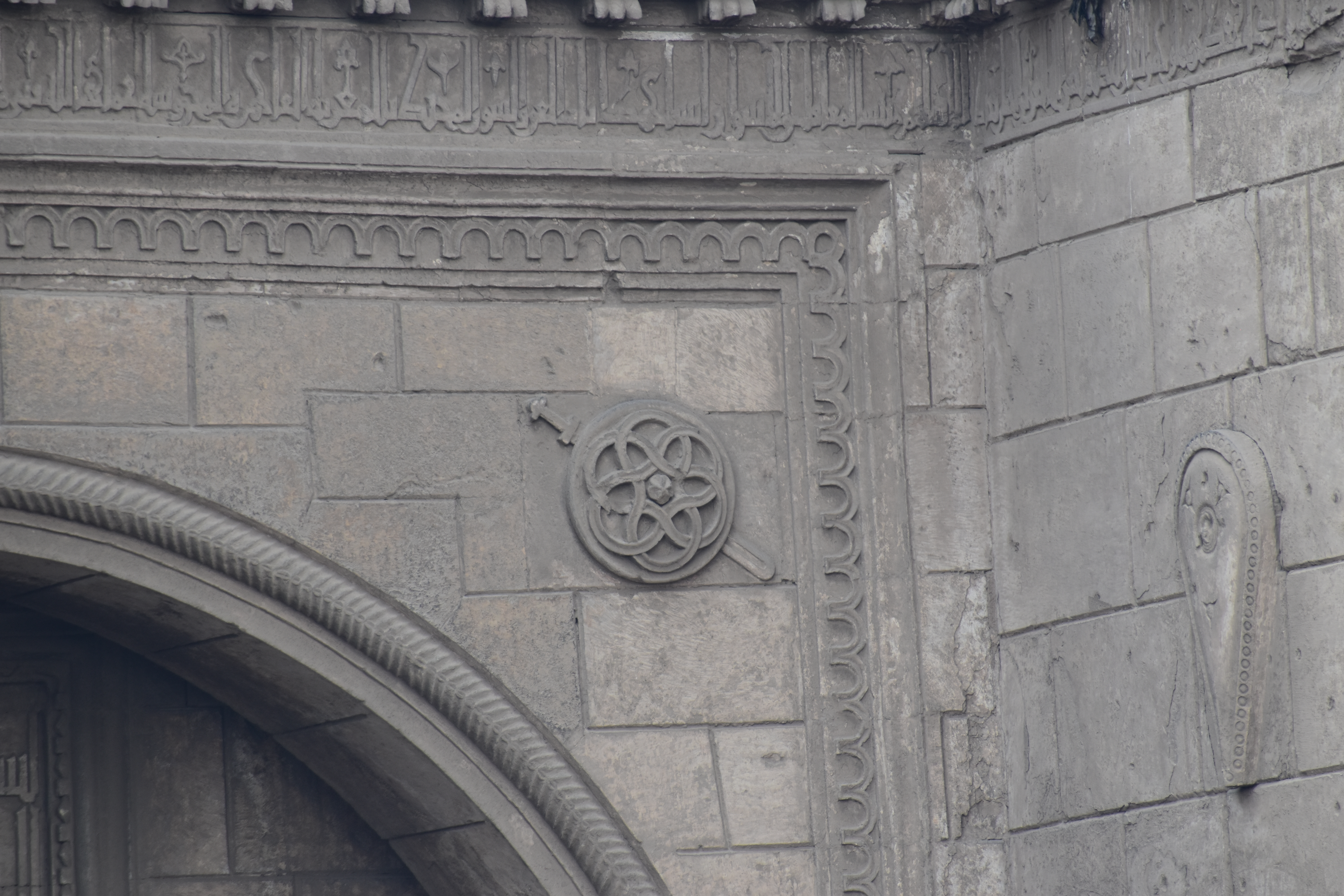 Bab al-Nasr in 2017, photo by Hatem Moushir